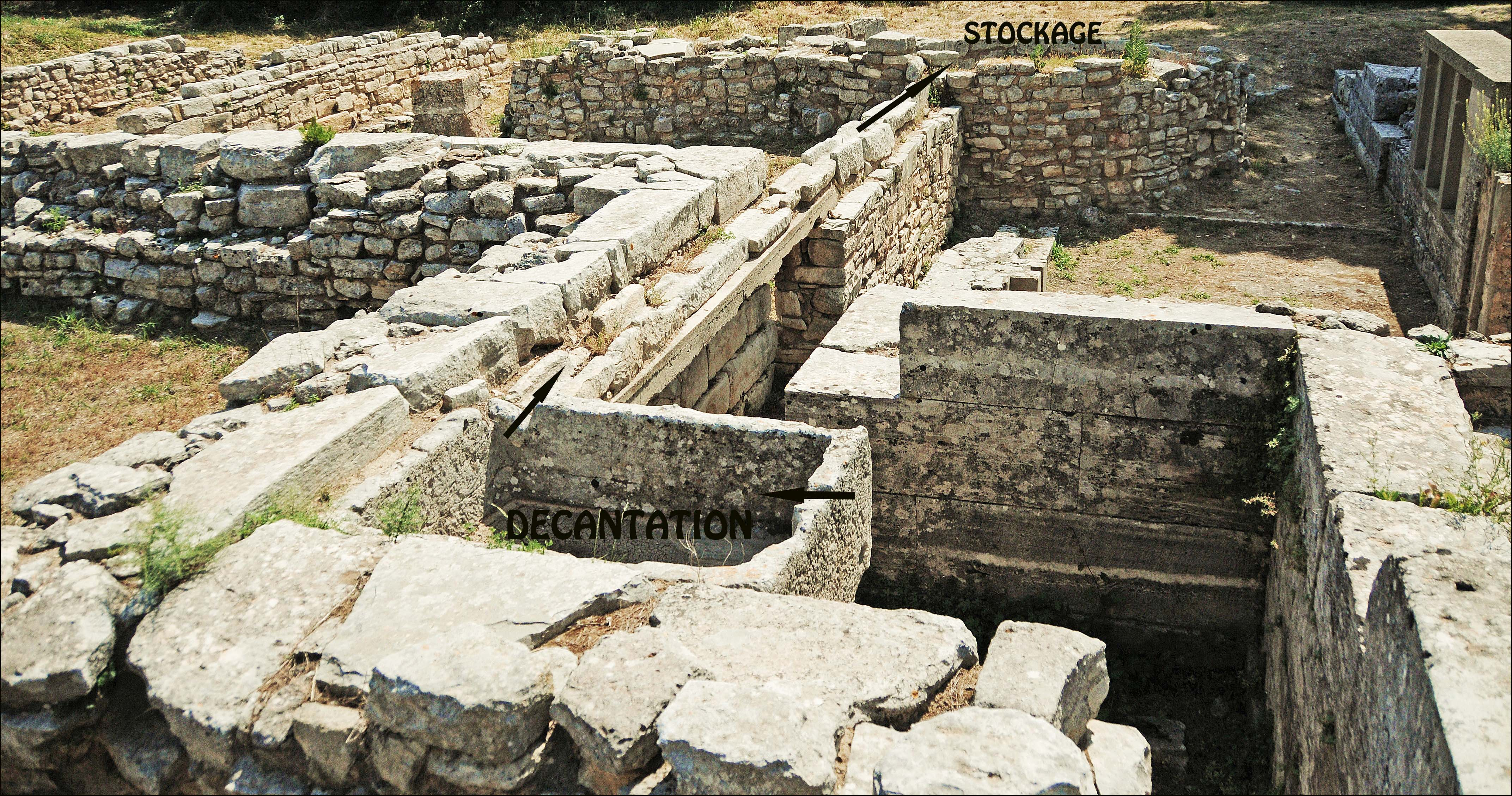 Complex for water treatment and storage at Tylissos.